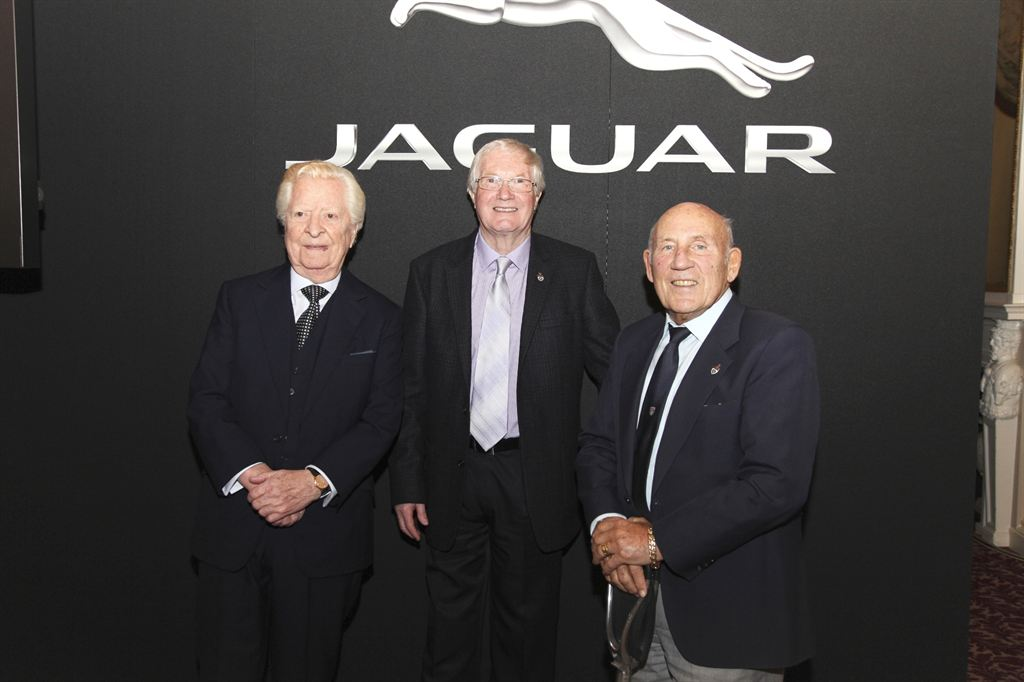 Jaguar Heritage Racing Press Conference, L-R John Coombs, Win Percy and Sir Stirling Moss